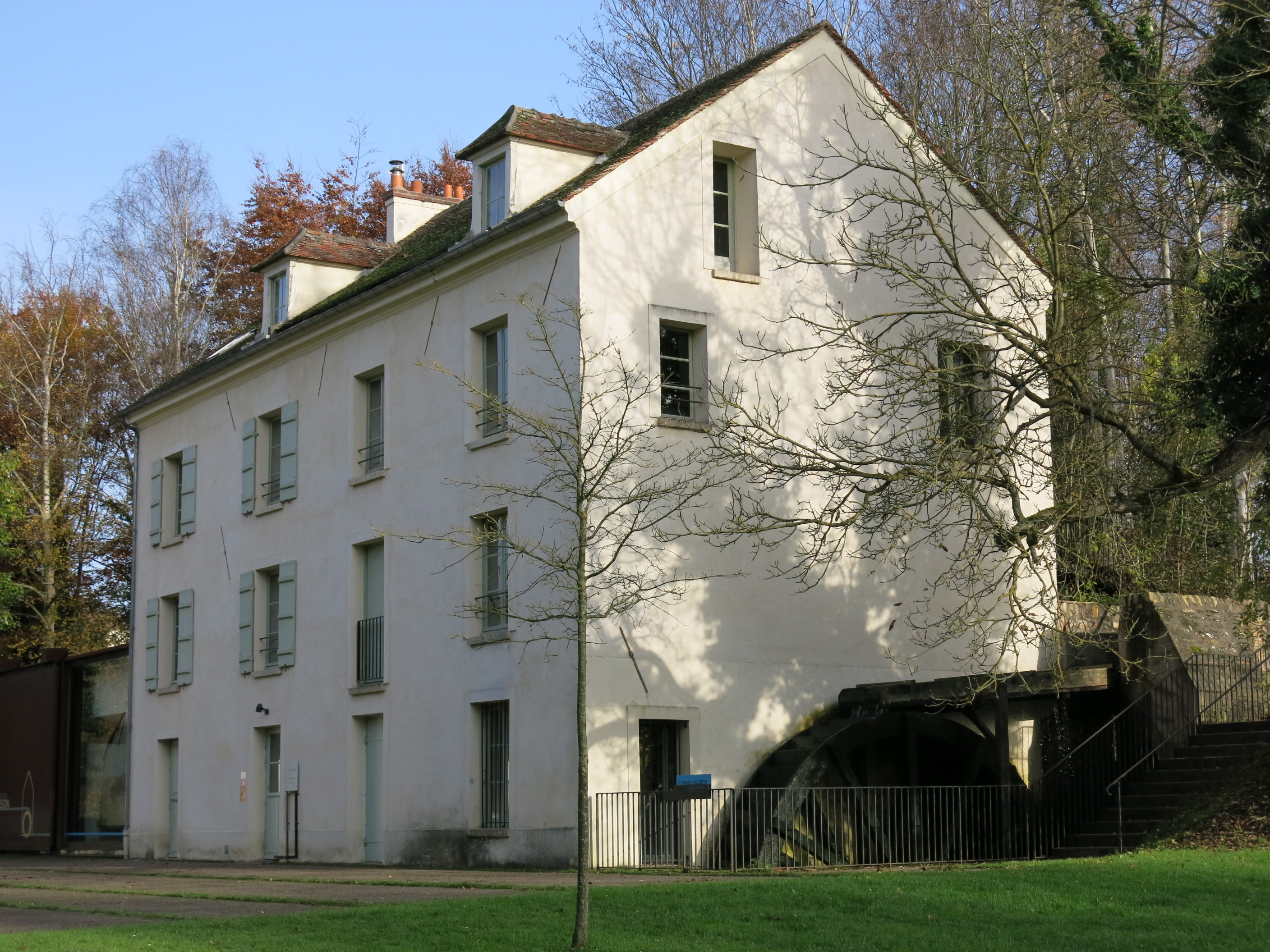 The moulin Russon and its wheel, side view, Bussy-Saint-Georges, Seine-et-Marne, France.